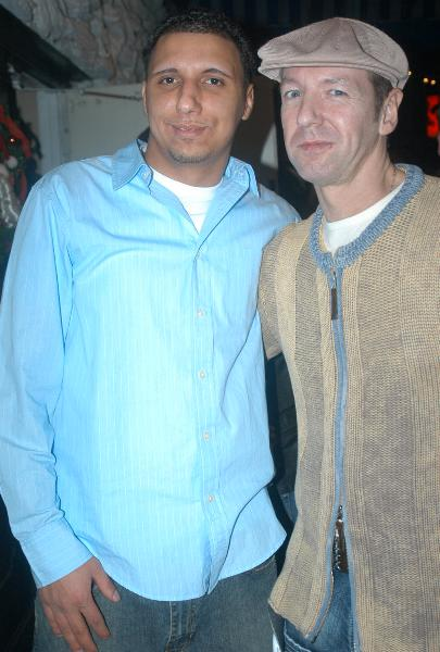 Tony T, Chris Charming at LA Direct Model's Party, Dec 19, 2005